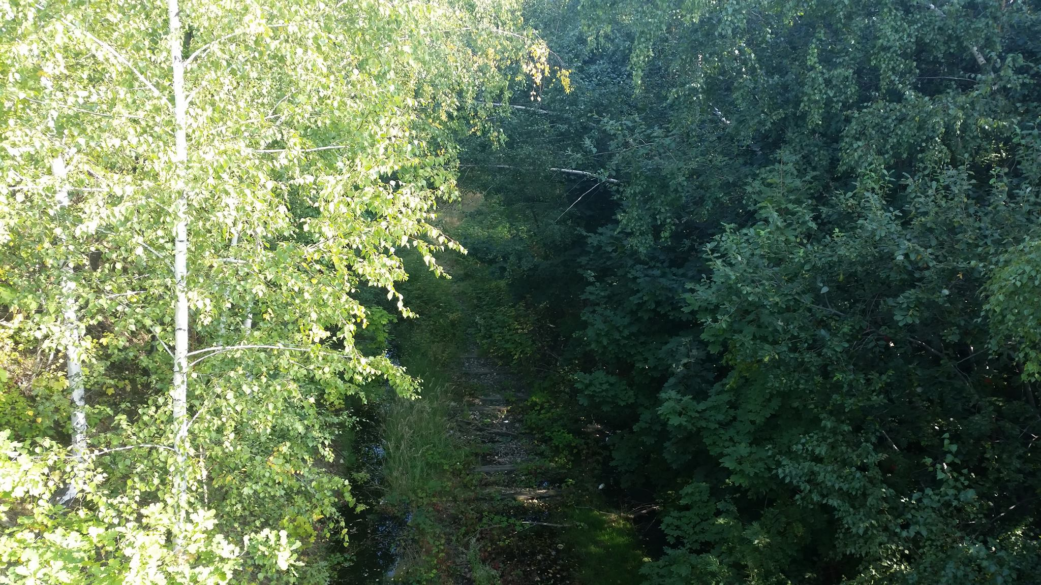 Golden Train in Wałbrzych